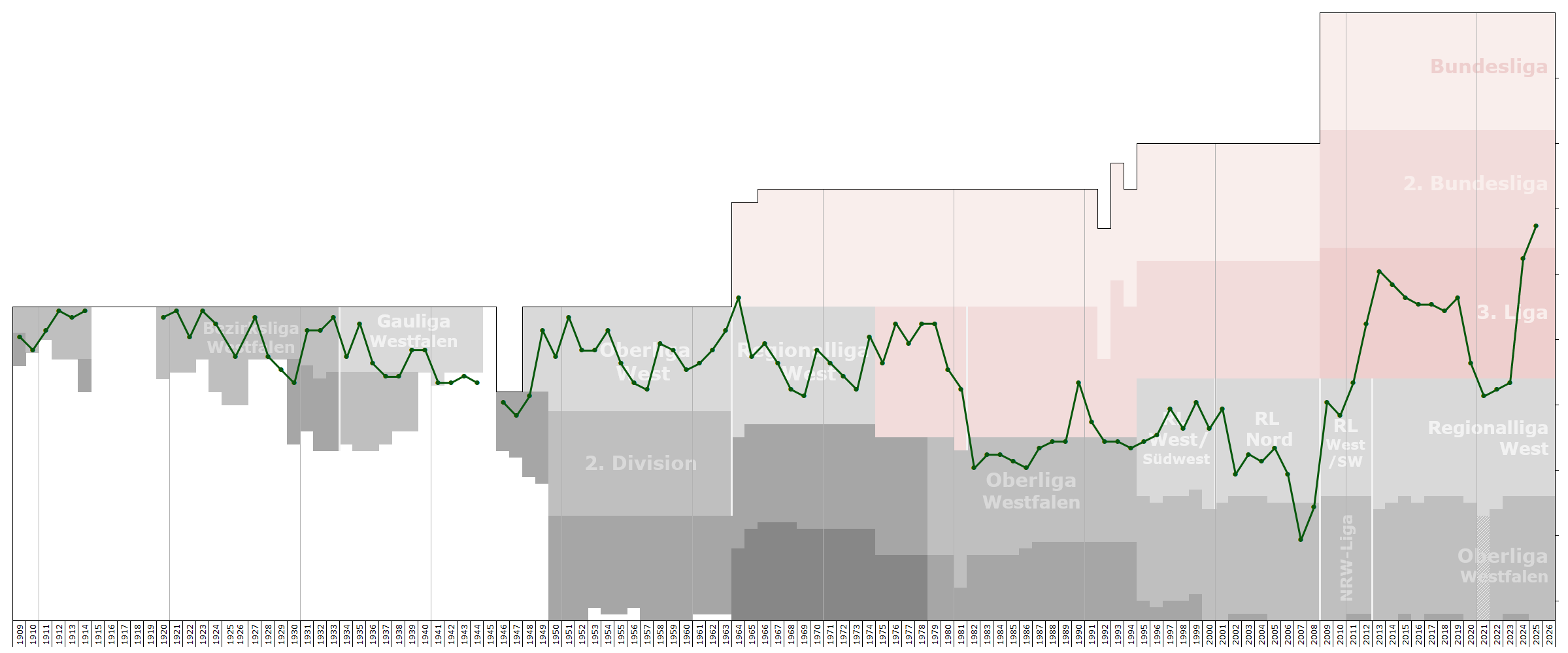 Chart of end-season table positions of Preußen Münster in the football league system of Germany. Data source: RSSSF, wikipedia, f-archiv.de, fussball.de